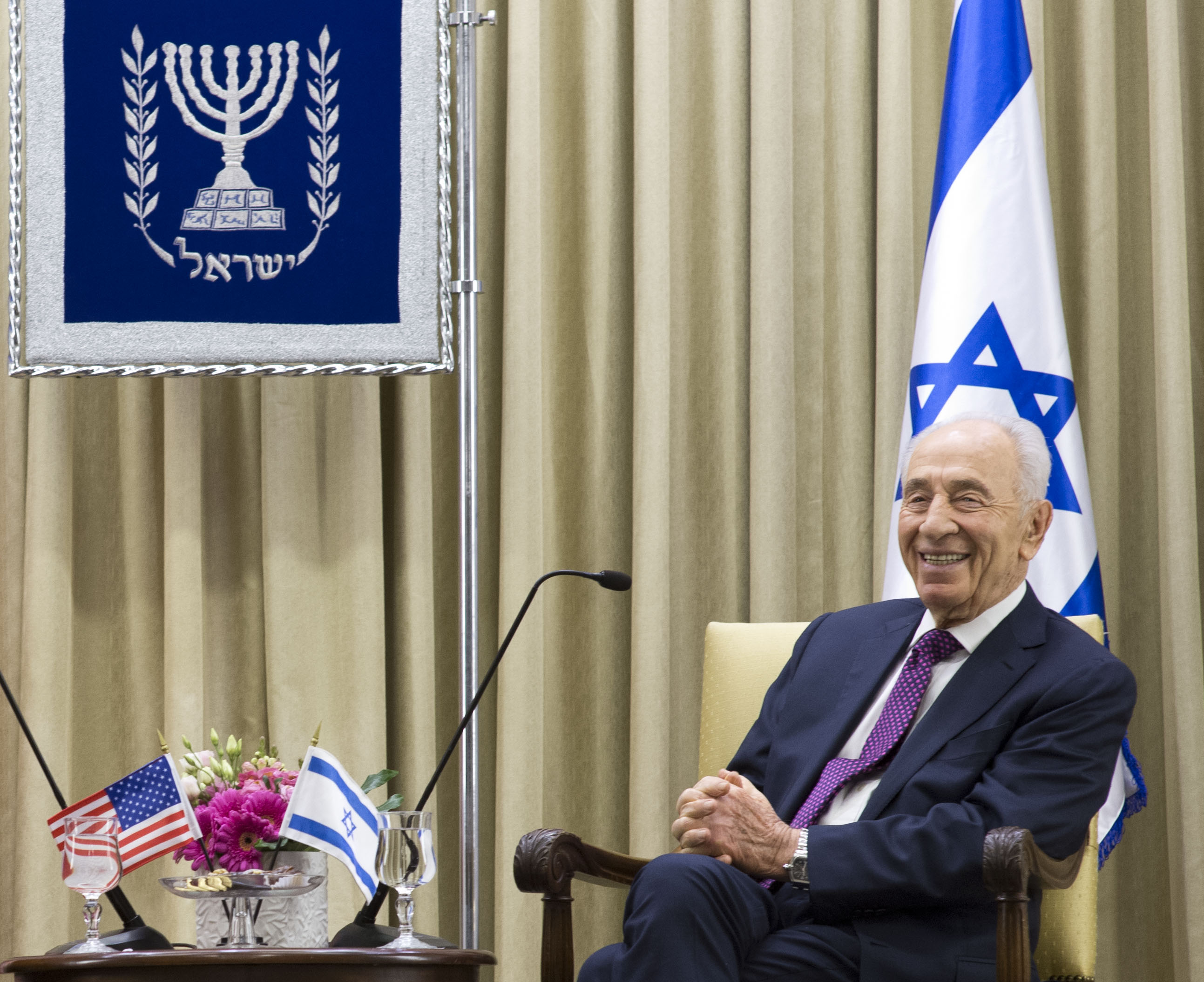 ecDef visits Israel - May 15-16, 2014